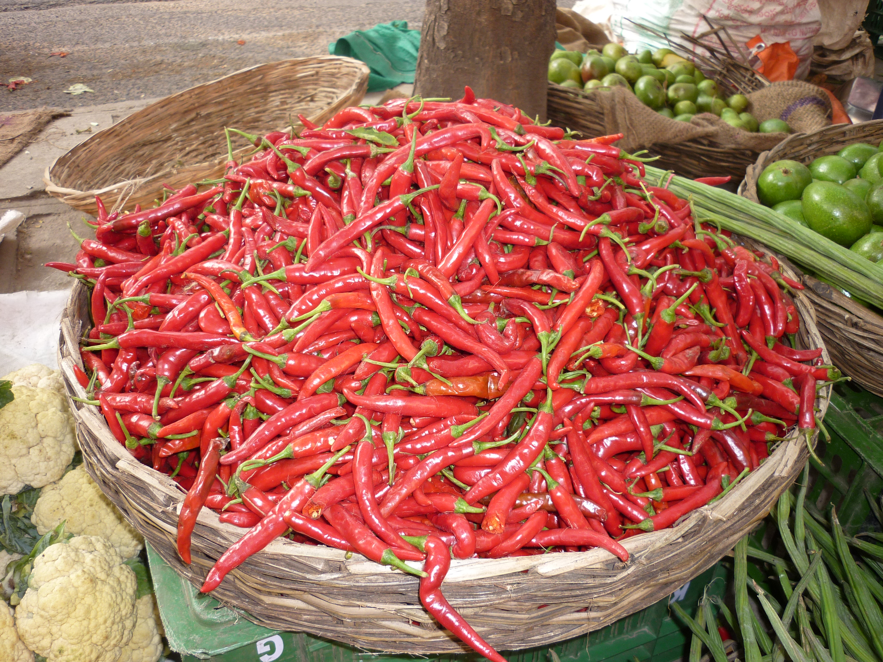 Chilly_ap